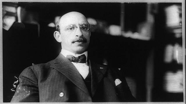 Alexander Berkman, (1870 - 1936) American writer and radical anarchist